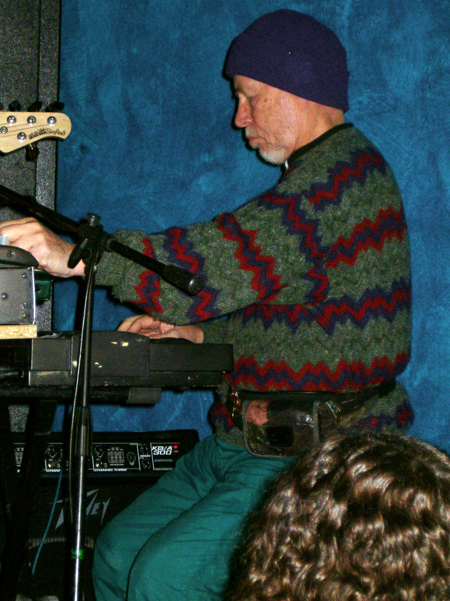 The Grandmothers Re-Invented, live at the America, 24/1/2005, Torino, Italy (Set)